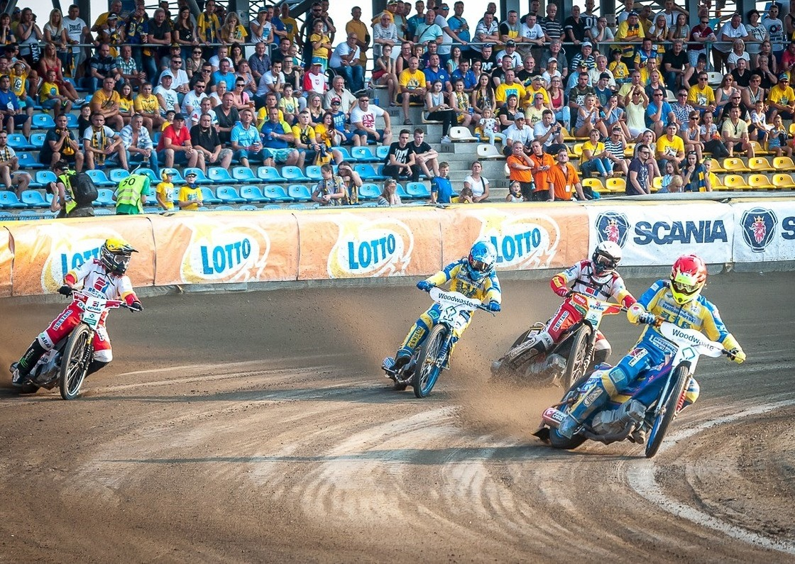 8 race of the match Stal - Sparta 2016: Tai Woffinden (yellow helmet), Bartosz Zmarzlik (blue helmet), Szymon Woźniak (white helmet), Krzysztof Kasprzak (red helmet)